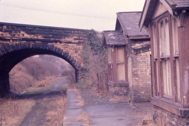 Rowlands Gill - Derelict Railway Station A picture of part of the old railway station at Rowlands Gill. Taken some time in the mid-late 1960's. Unfortunately exact date unknown. This part of the station now demolished, although the Station Master's house, the bridge and a part of the platform still remain.